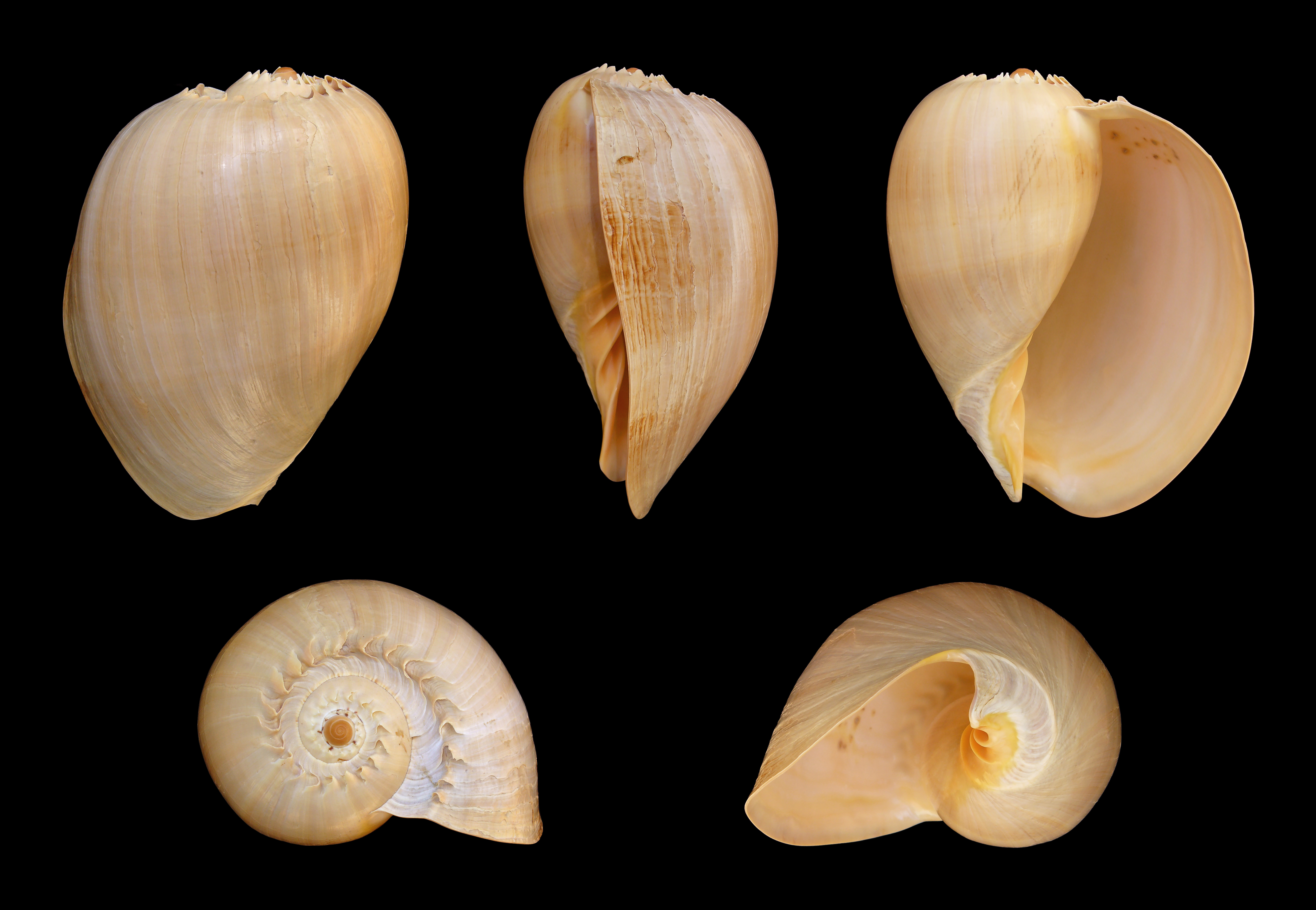 Crowned Baler, Volutidae, length 24 cm, originating from the region Indonesia - Malaysia - New Guinea. Shell of own collection, therefore not geocoded. From left to right: Dorsal, lateral (right side), ventral, back, and front view.